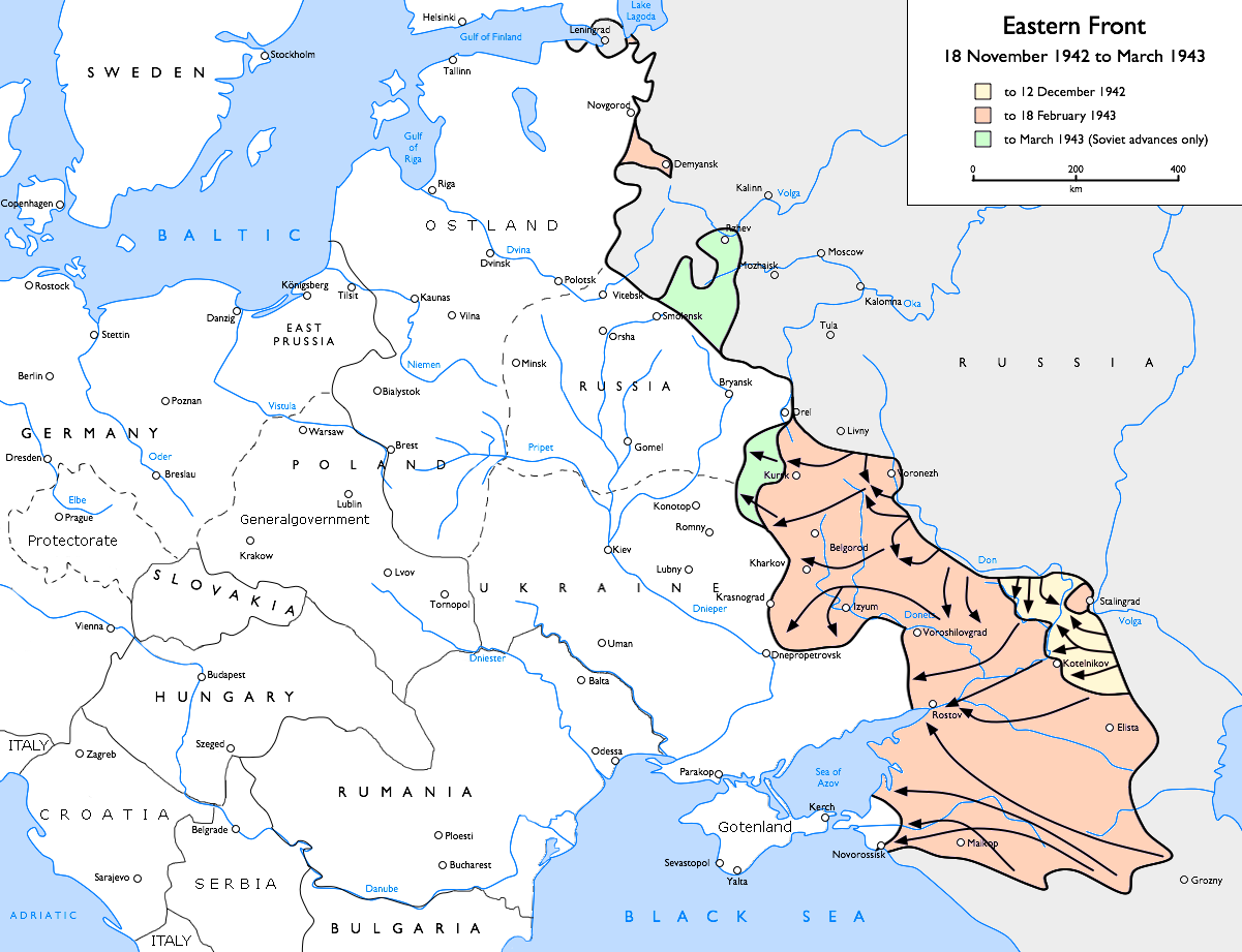 Soviet advances on the Eastern Front (WWII), en:1942-en:11-18 to March en:1943Drawn by User:Gdr Category:Maps of the history of Europe Category:Maps of World War II in Europe Слика:Eastern Front 1942-11 to 1943-03.png